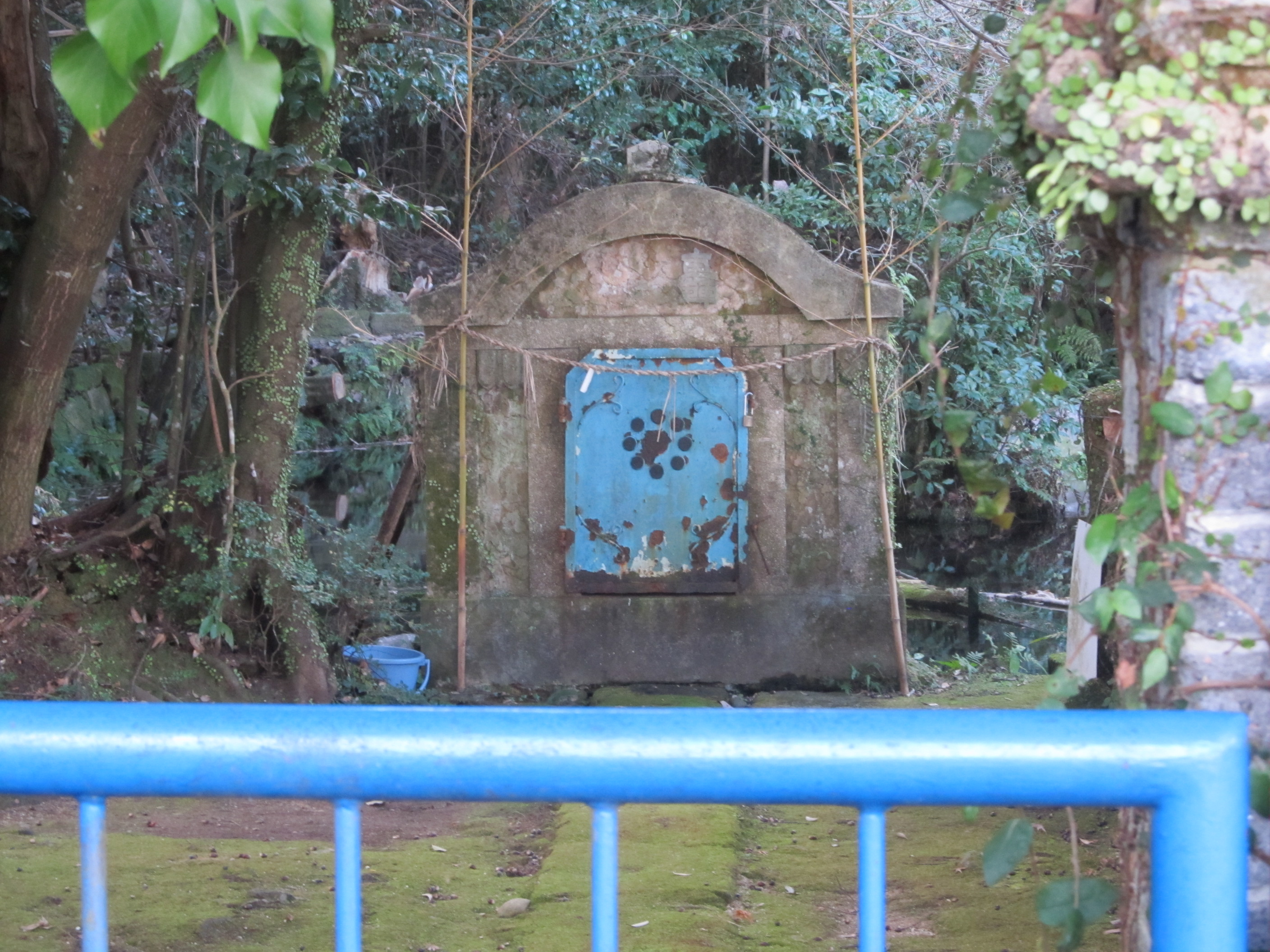 Intake of Gosen Aqueduct.